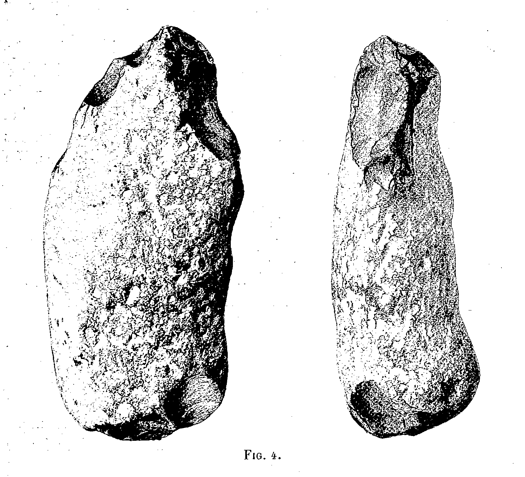 Front and side view of a pseudo-hammerstone, an eolith unearthed in Southeastern France. Once believed to be the earliest expression of stone tool industry, modern consensus acknowledges eoliths to be rock fragments produced by natural phenomena (geofacts) rather than man-made artifacts, with Marcellin Boule being one of the first to debunk their artificial status.